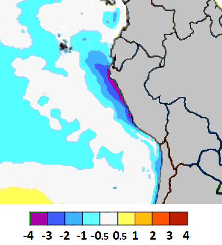 La Niña Costera (coastal) of 2018